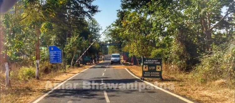 Karlapat Wildlife Santuary